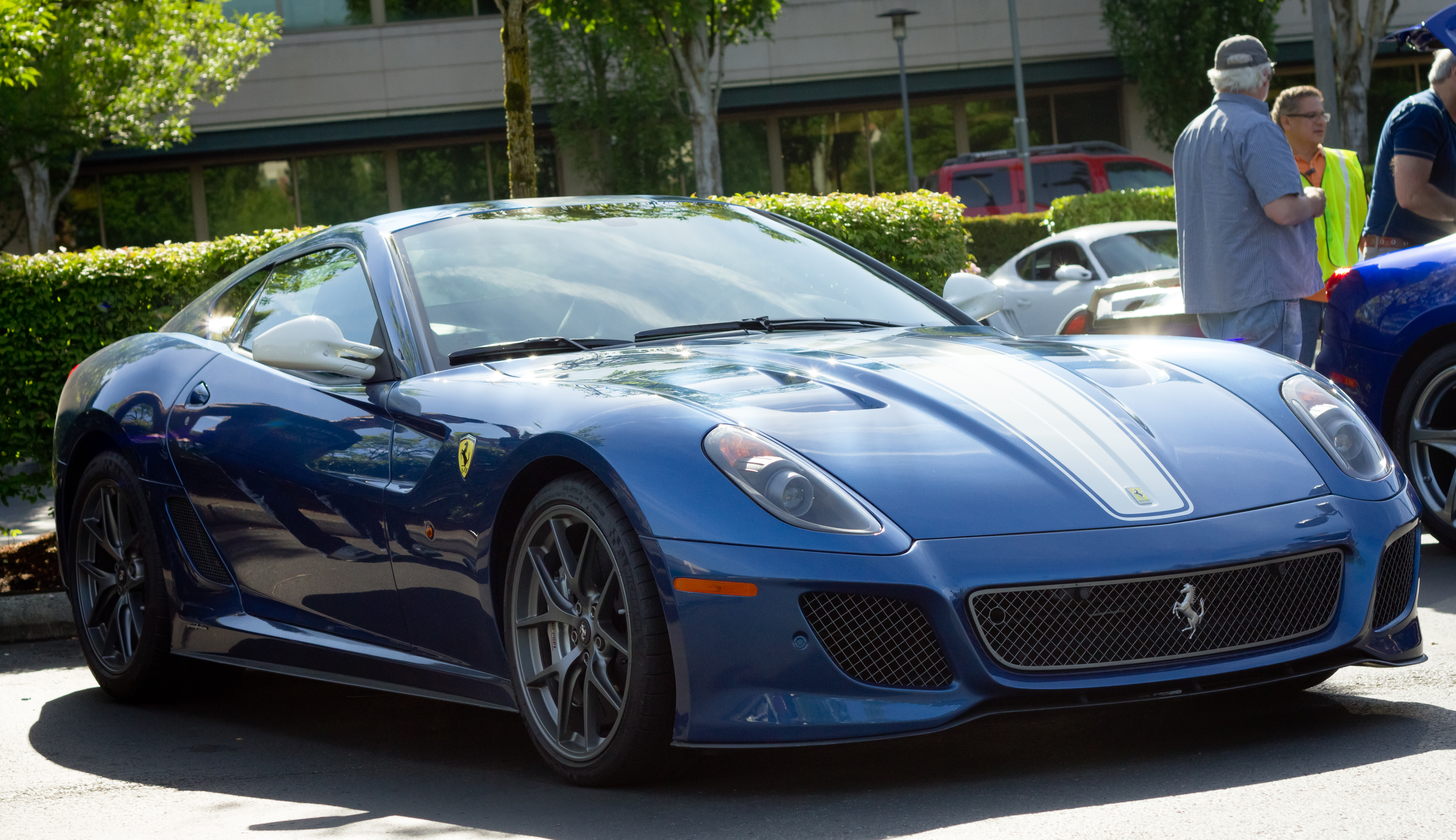 Ferrari 599 GTO photographed in Redmond, WA